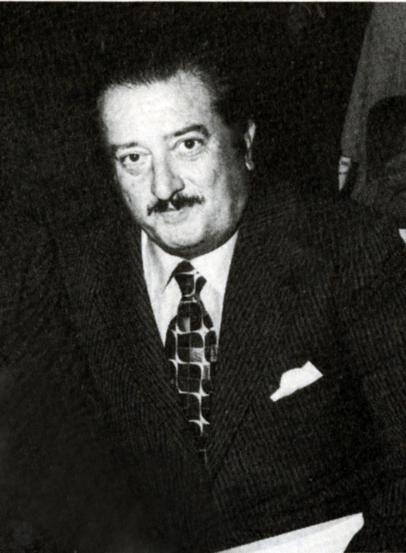 photo from the Italian magazine DADAUMPA (1972)